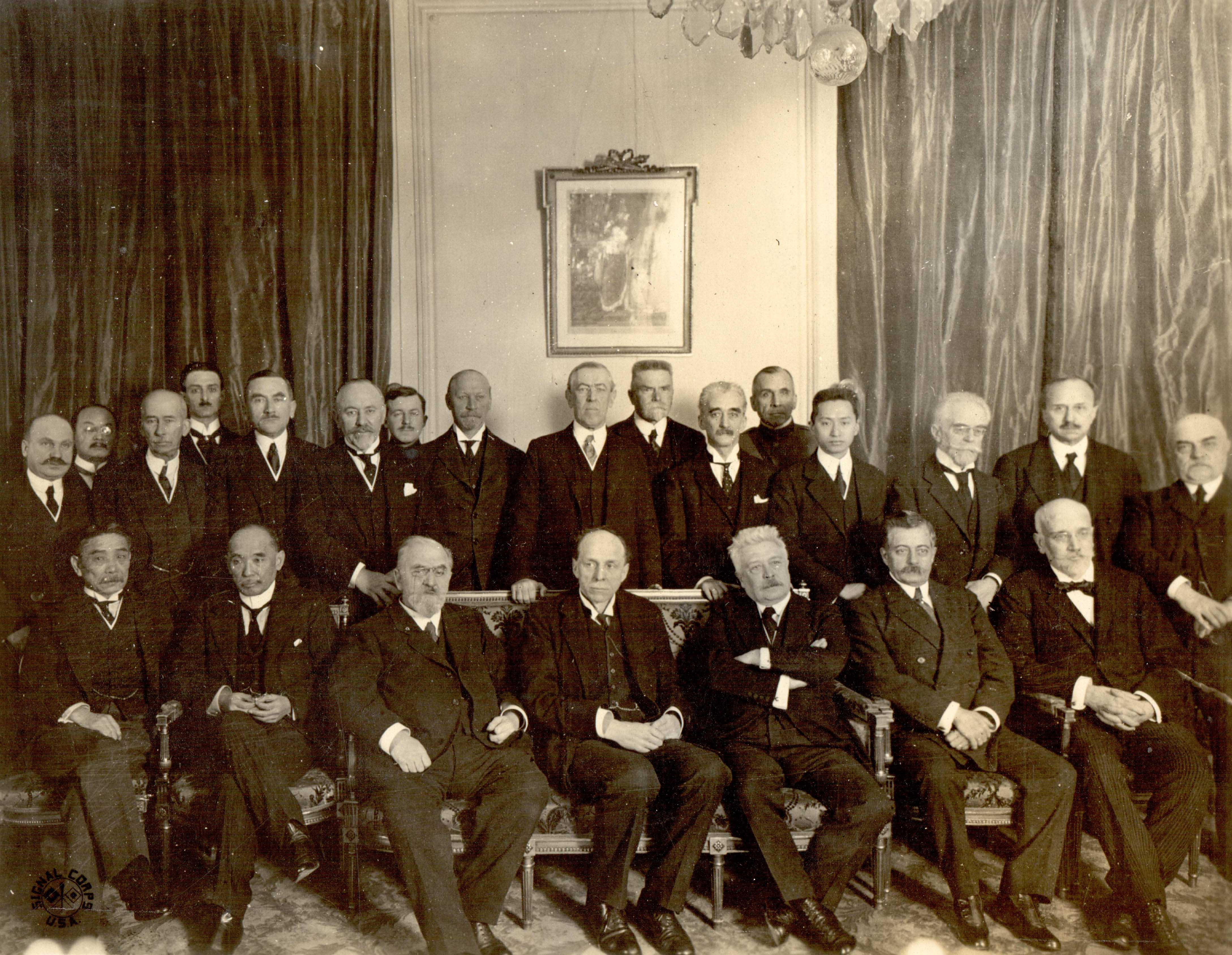 Photo of the members of the commission of the League of Nations created by the Plenary Session of the Preliminary Peace Conference, Paris, France, 1919 Standing (left to right): Constantine Diamandy (Rumania); Unidentified; Col. Edward M. House (United States); Unidentified; Roman Dmowski (Poland); Milenko R. Vesnitch (Serbia); Unidentified; Jan Smuts (British Empire); Woodrow Wilson (United States); Karal Kramar (Czechoslovakia); Paul Hymans (Belgium); Unidentified; V.K. Wellington Koo (China); Jaime Batalha-Reis (Portugal); Vittorio Scialoja (Italy); Unidentified Seated (left to right): Sutemi Chinda (Japan); Nobuaki Makino (Japan); Leon Bourgeois (France); Robert Cecil (British Empire); Vittorio Emanuele Orlando (Italy); Epitacio Pessoa (Brazil); Eleftherios Venizelos (Greece)